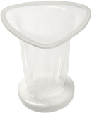 Reddy Female Condom